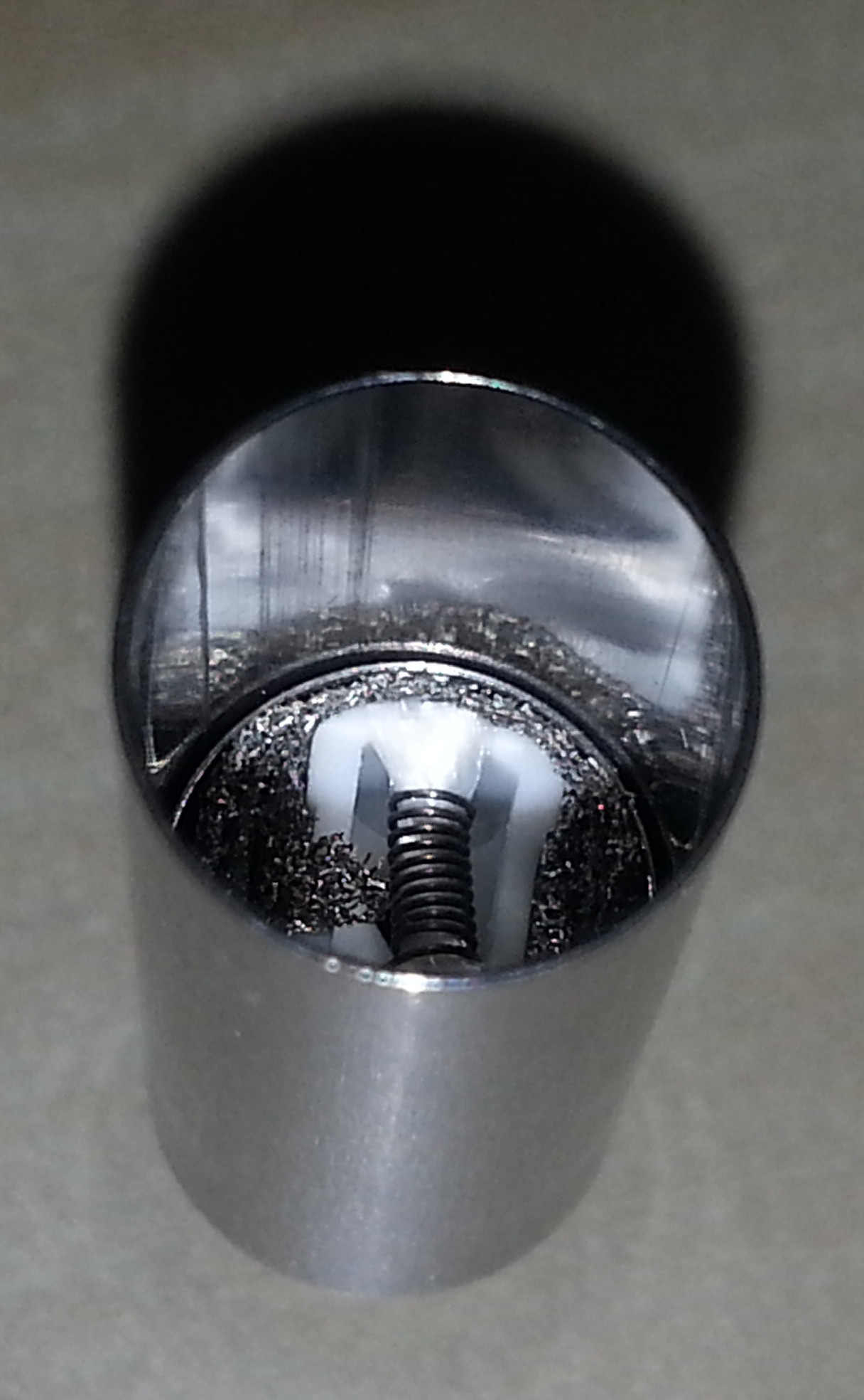 A bridgeless dripping atomizer electronic cigarette component